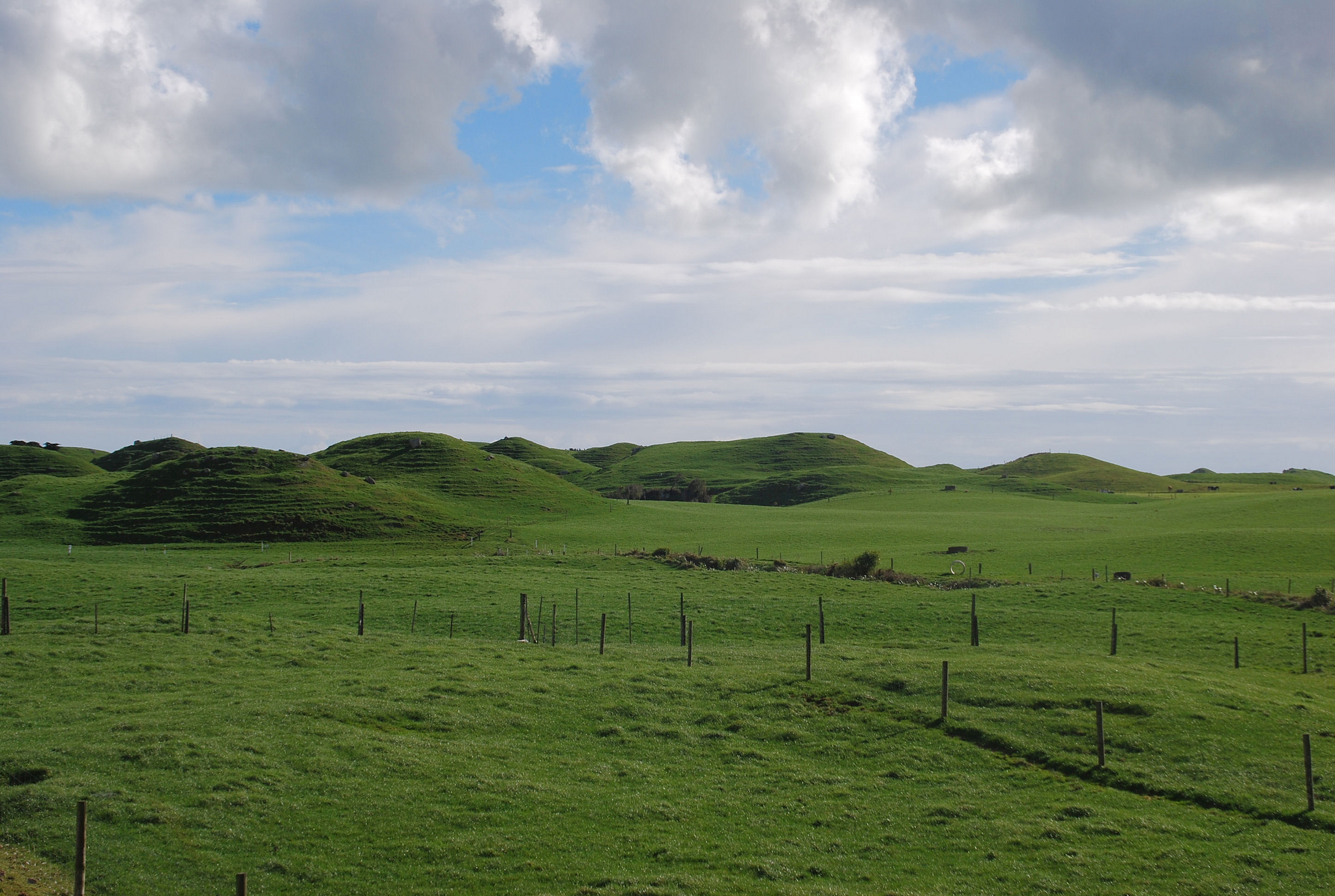 Characteristic Remains from a lahar in the plane around Mt Taranaki, New Zealand.